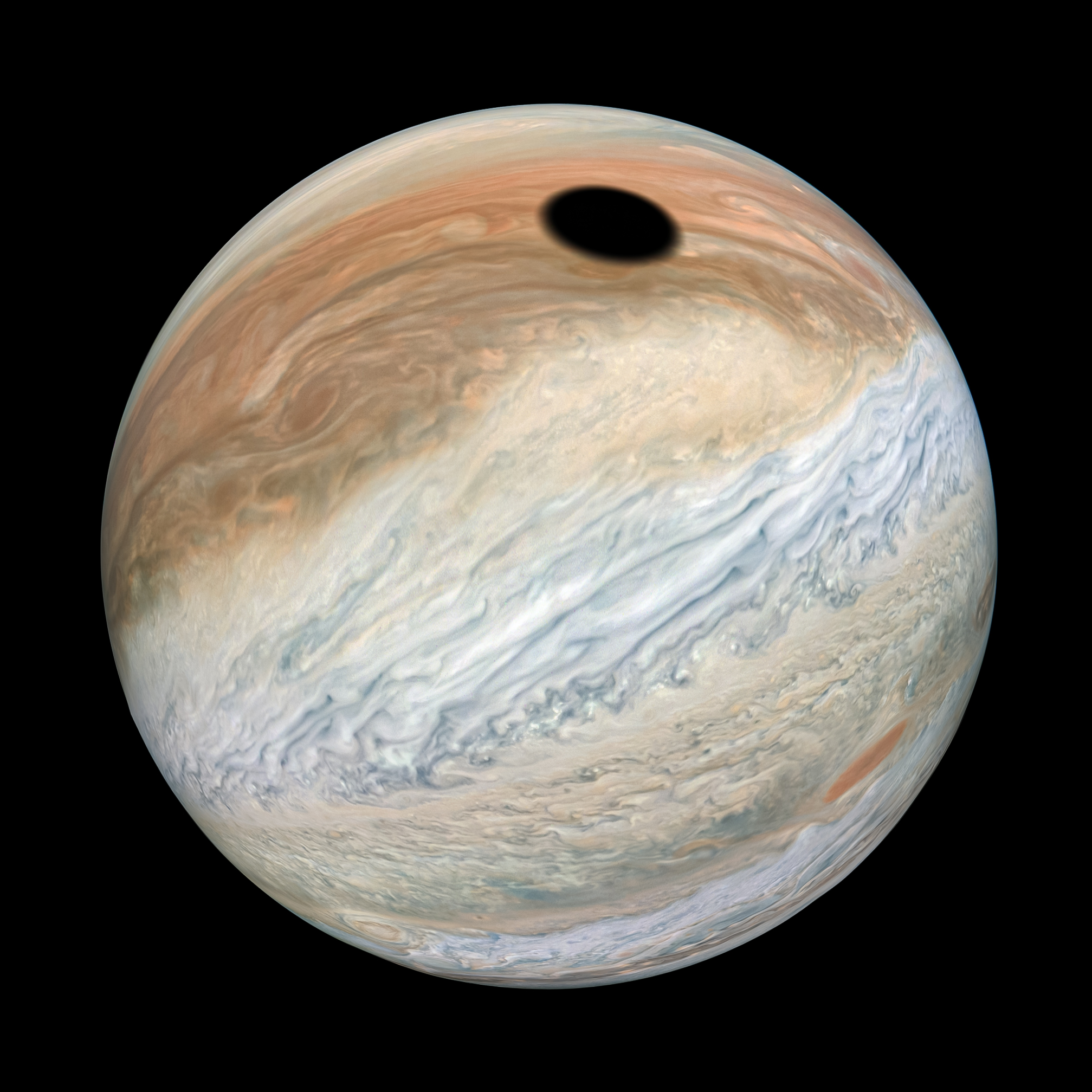 Shadow of Io on Jupiter. The photo was taken by Juno, NASA space probe orbiting the planet Jupiter, when it was about 8000 km above Jupiter’s surface. The image was processed by Kevin Gill, a NASA software engineer. more information